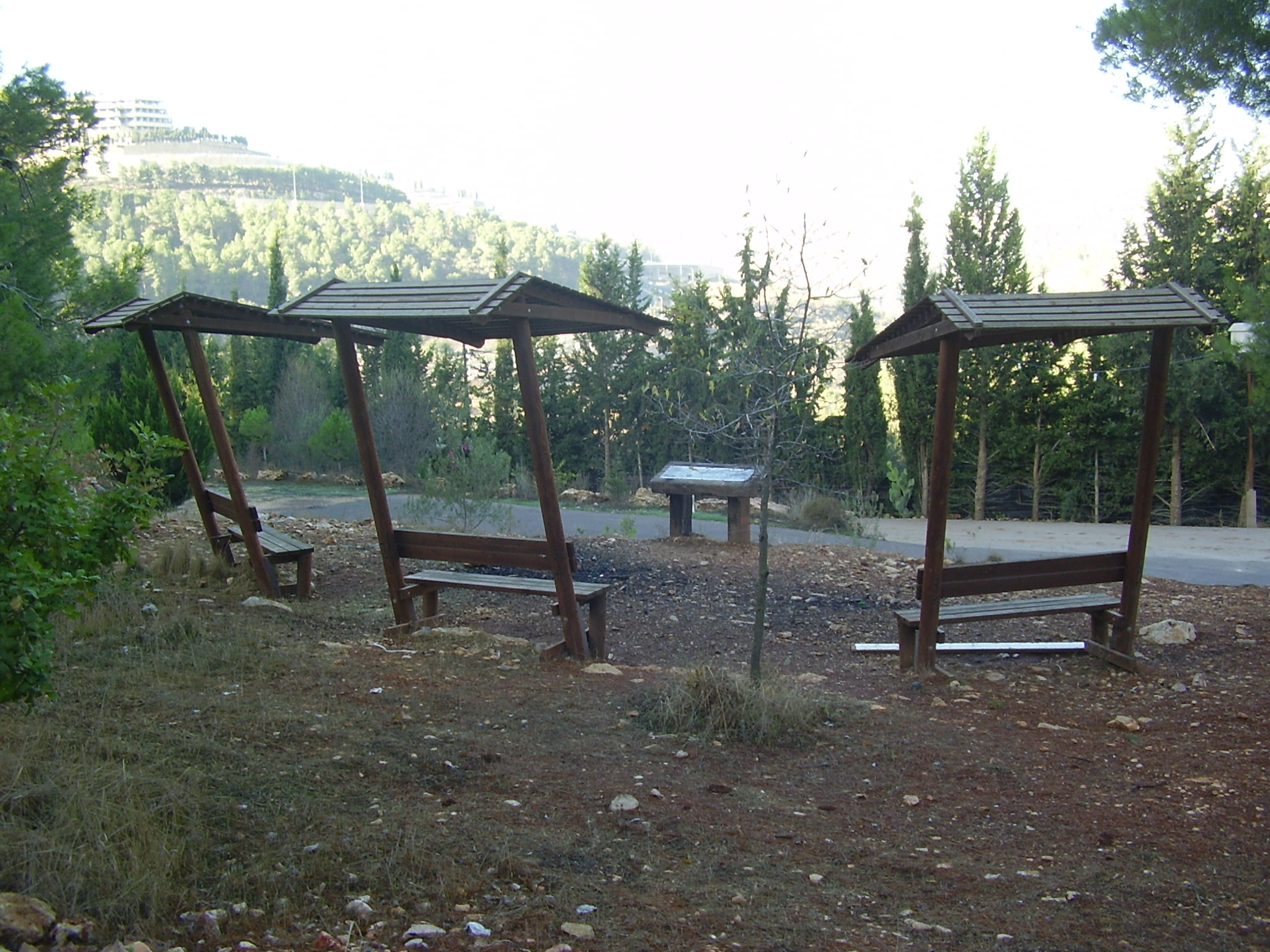 the torczyner observatory point near jerusalem מצפה טורצ'ינר (טור סיני) בעמק הארזים